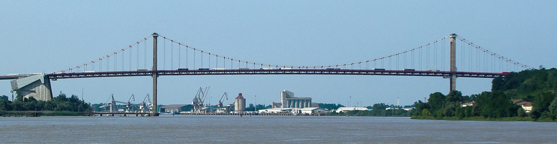 Bridge nammed "Pont d'Aquitaine" on the river Garonne between the north of Bordeaux and Lormont